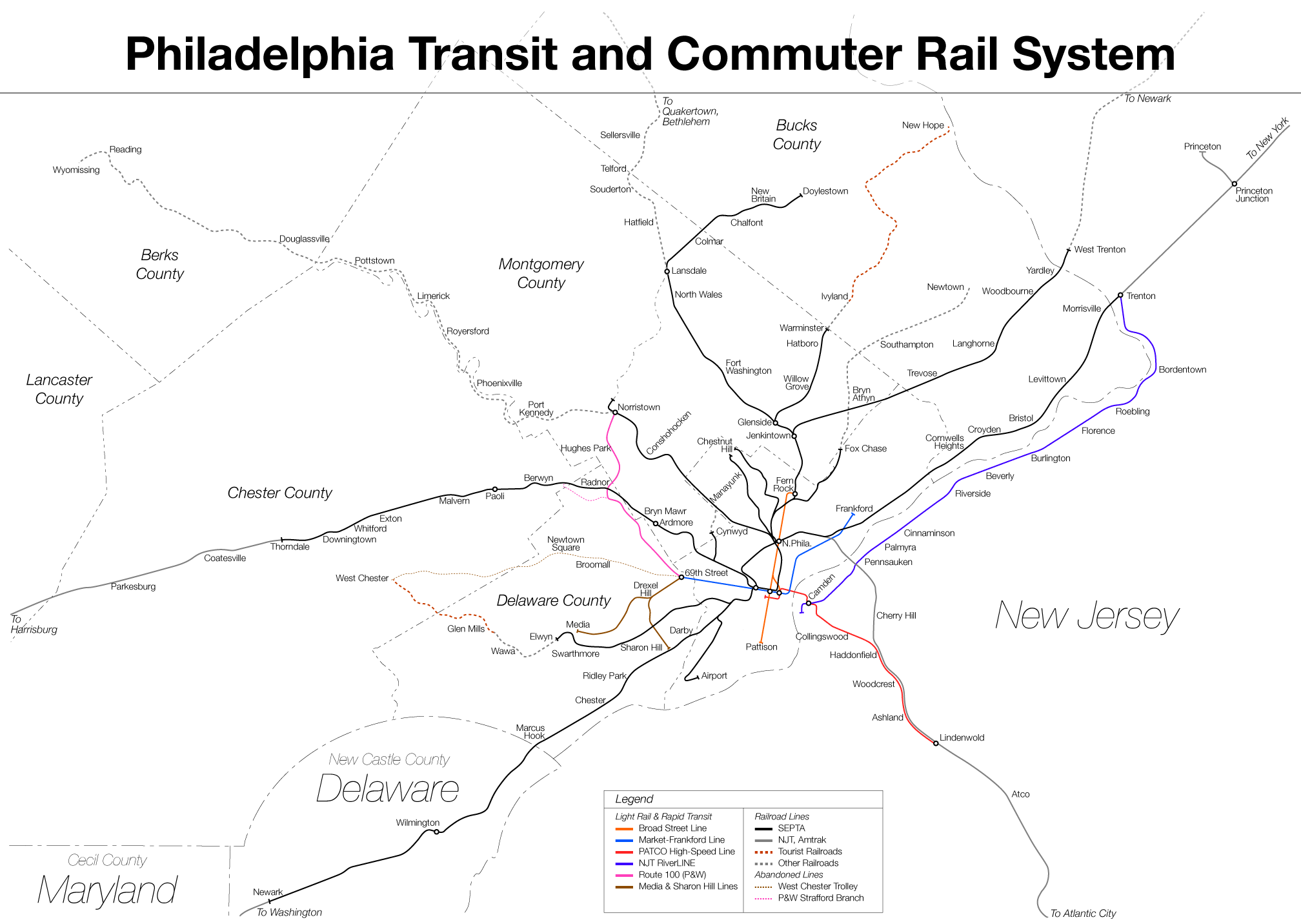 Geographic map of Philadelphia region rail system.